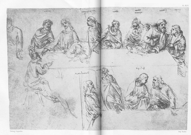 Sketch for The Last Supper, Plate XLVI, from The Notebooks of Leonardo Da Vinci, Complete, translated by Jean-Paul Richter, 1888 (a work in public domain, posted at "The Da Vinci Notebooks at " and other sites) including reproductions by Dujardin of original notebook pages